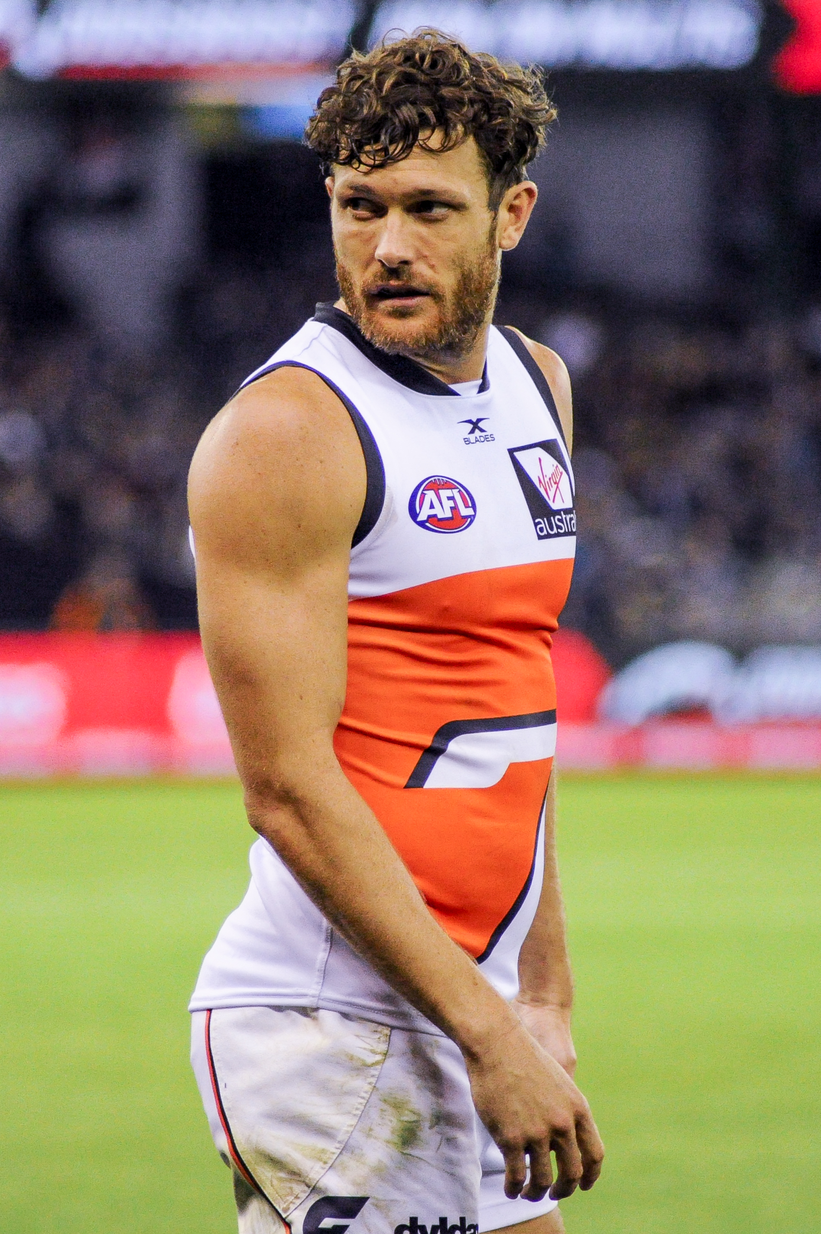 Sam Reid during the AFL round twelve match between Carlton and Greater Western Sydney on 11 June 2017 at Etihad Stadium in Melbourne, Victoria.